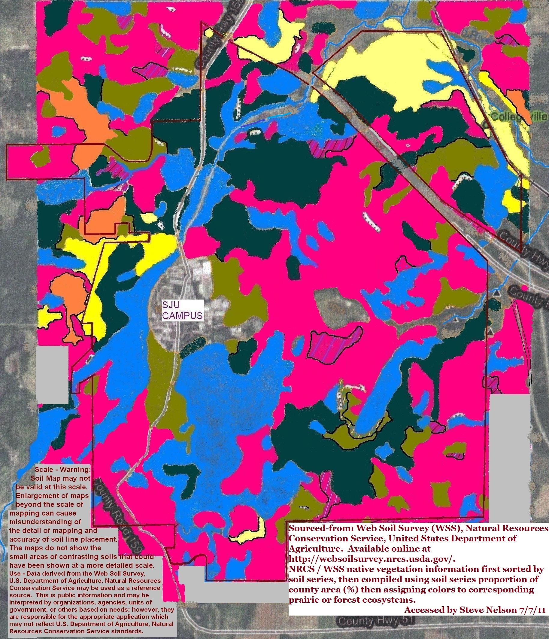 Map shows native vegetation of St John's University area near Collegeville, Minnesota. West and northwest of the campus one can see prairie, oak savanna and mixed hardwoods and prairie grasses.